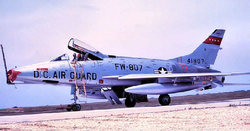 121st Tactical Fighter Squadron - North American F-100C-5-NA Super Sabre 54-1807 Aircraft retired to MASDC Dec 6, 1971. To Turkish AF Jun 1973. W/o May 12, 1974